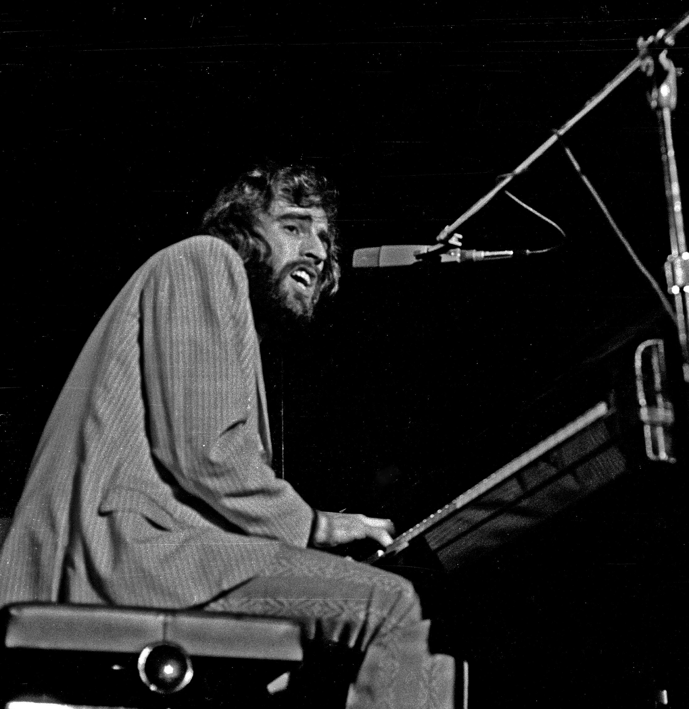 Richard Manuel playing with The Band, Hamburg, May 1971.